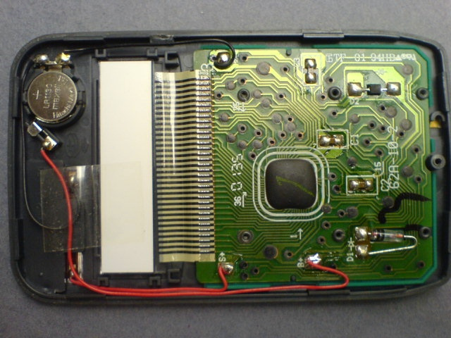 The interior of a newer Citizen SE-733 (ca. 2000) pocket calculator